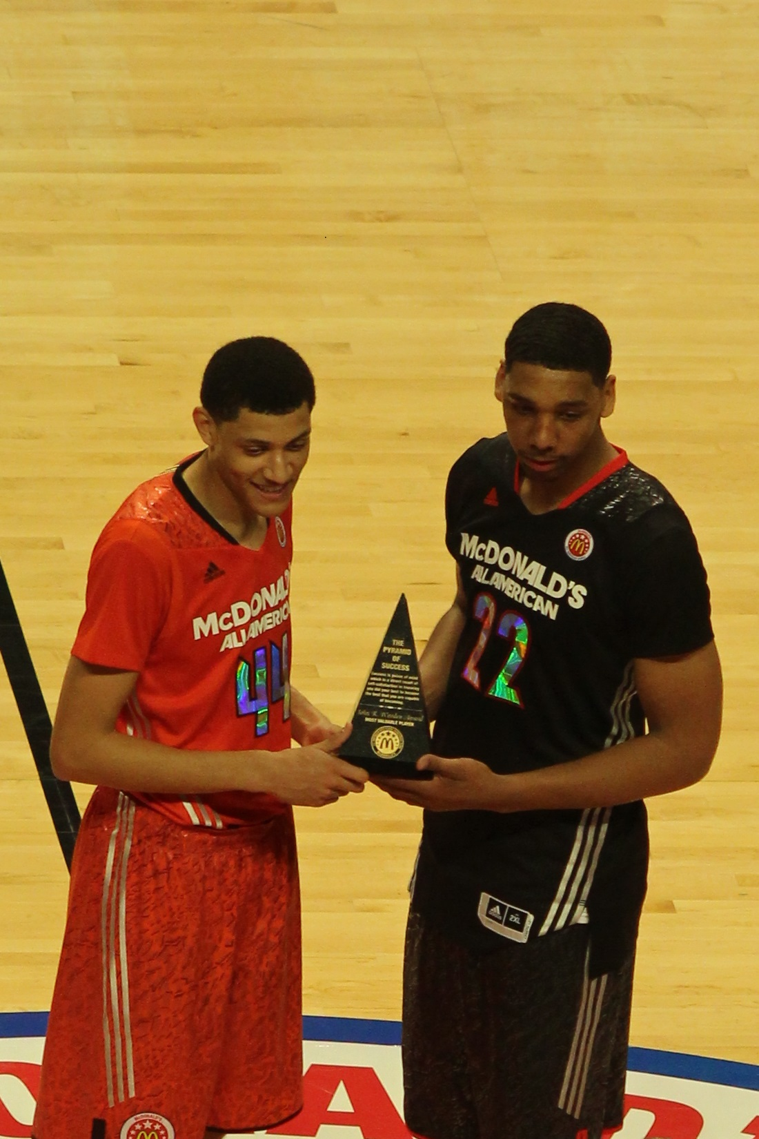 Justin Jackson (red uniform) and Jahlil Okafor (black uniform) receiving the w:2014 McDonald's All-American Boys Game co-MVPs at the United Center